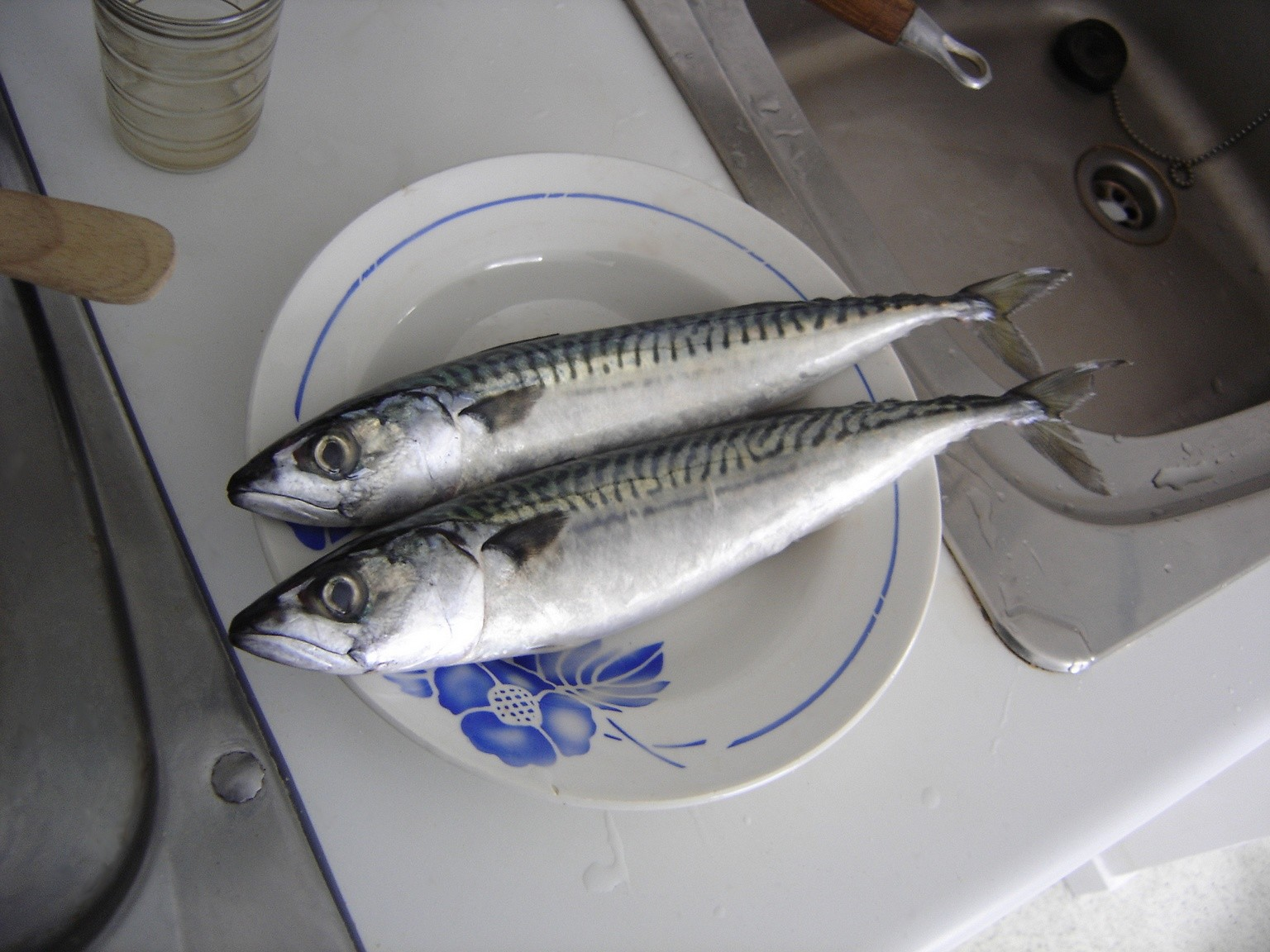 Atlantic mackerel (Scomber scombrus)